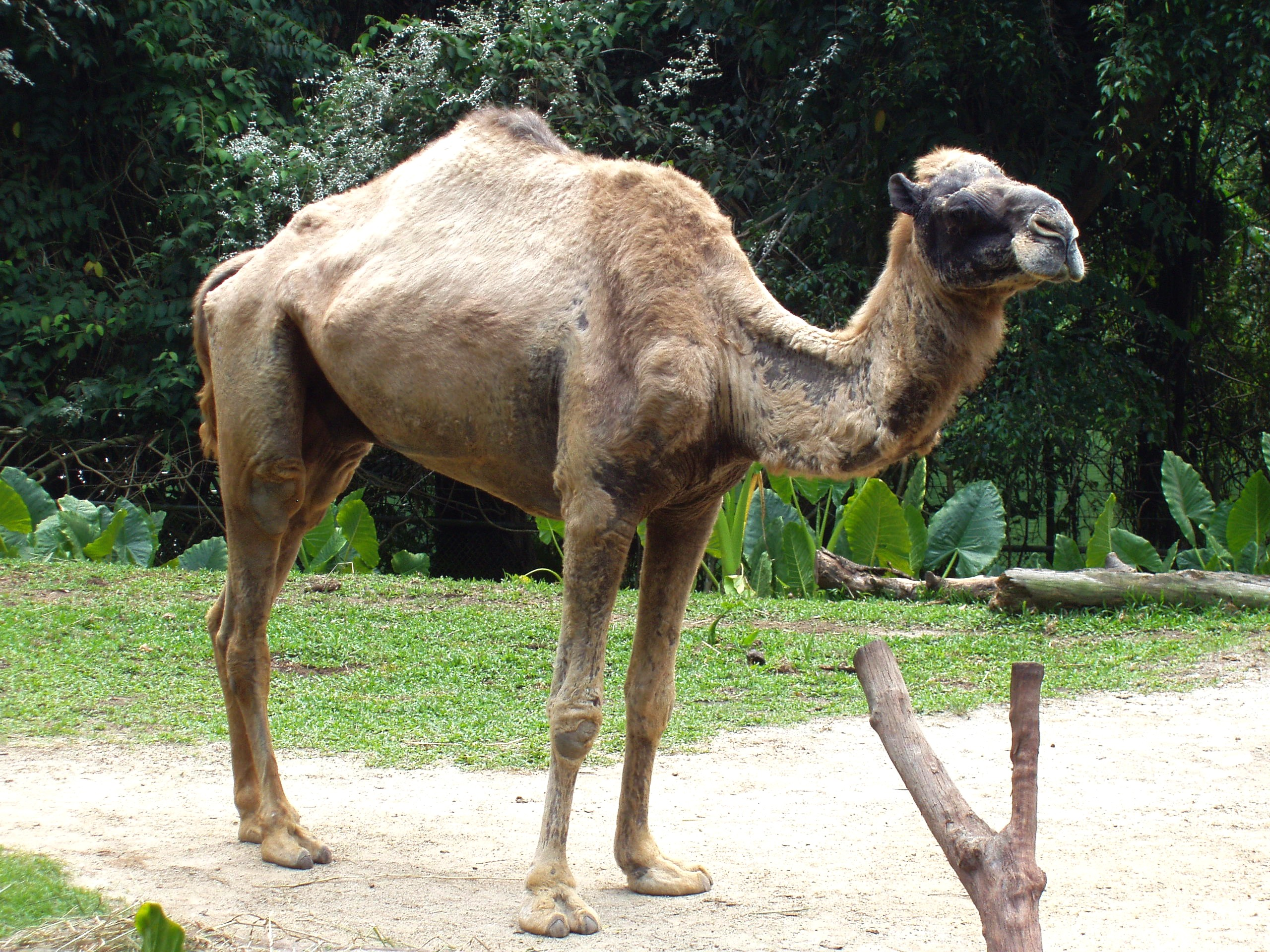 Dromedary in Singapore Zoo.